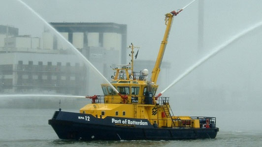 Cropped version of Image:Port of Rotterdam blusboot.jpg. Port of Rotterdam fire fighting ship